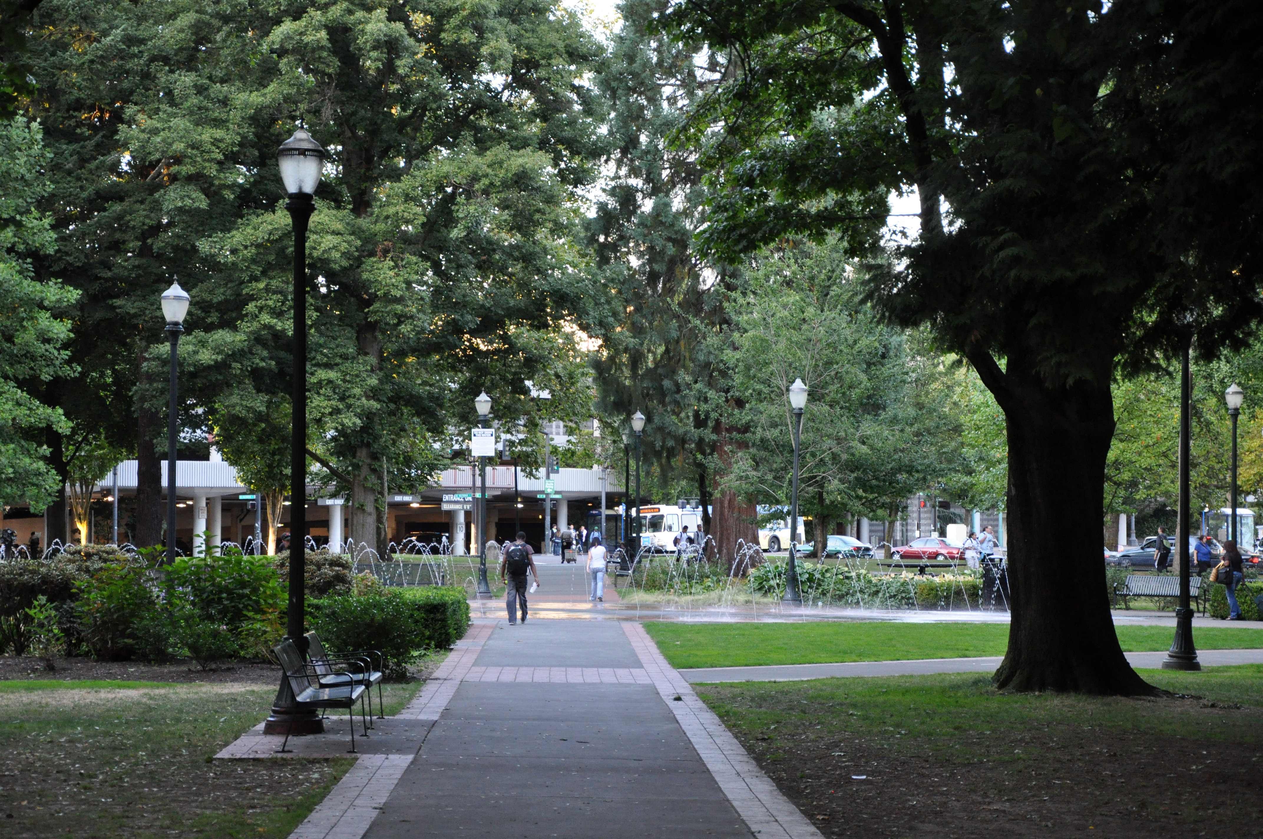 Holladay Park near Lloyd Center in northeast Portland, Oregon, in the United States